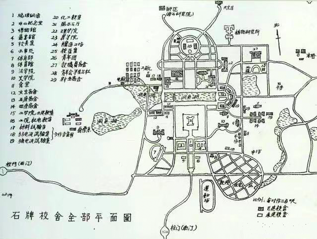 Map of former Shipai Campus, Sun Yat-sen University, 1948